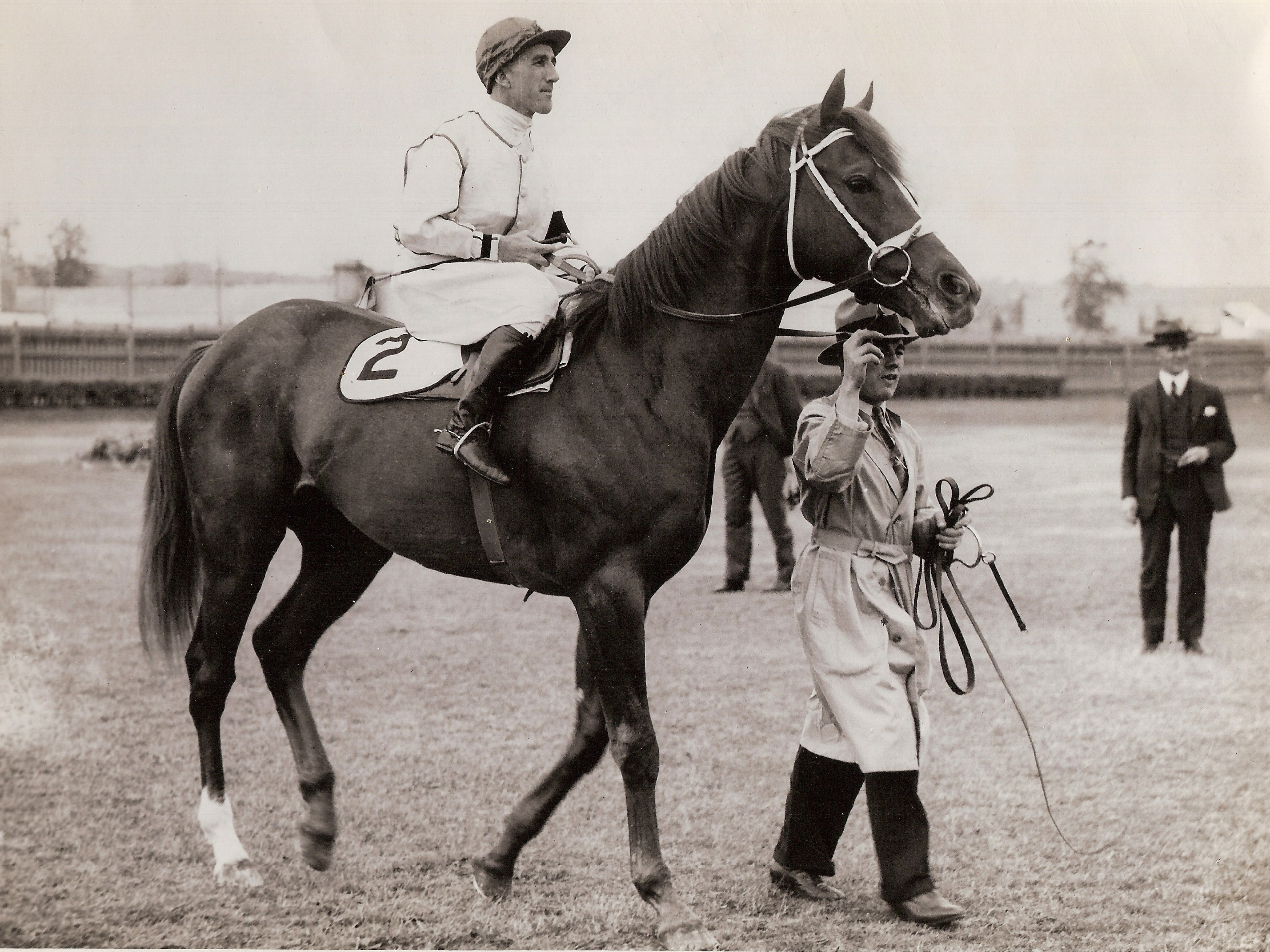 Scanned from original photo